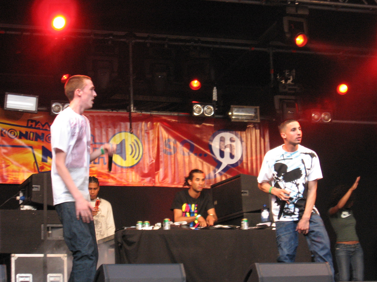 The Opposites, Koninginnenach 2007